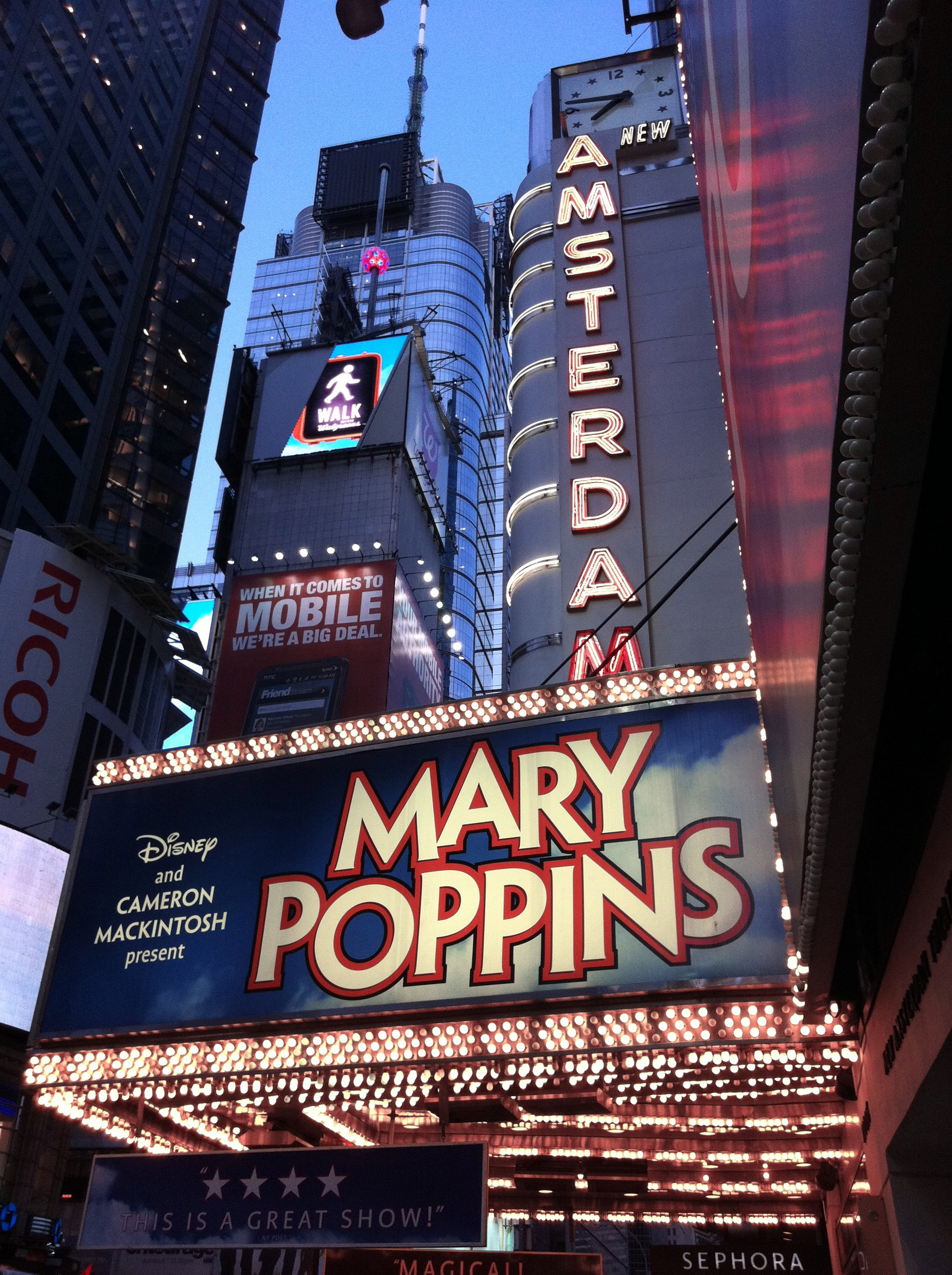 Mary Poppins at New Amsterdam Theatre in Broadway